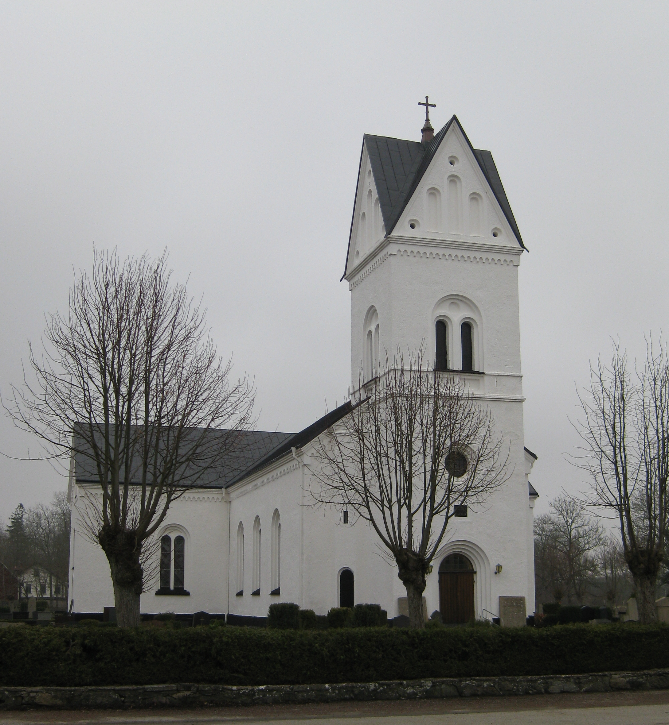 Lövestad church, Skåne, Sweden